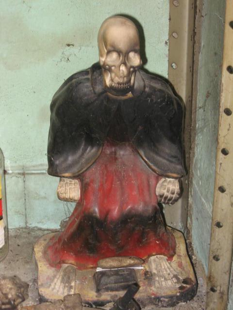 João Caveira Exu Imagem em gesso pintada de Exu João Caveira, entidade cultuada na Umbanda.